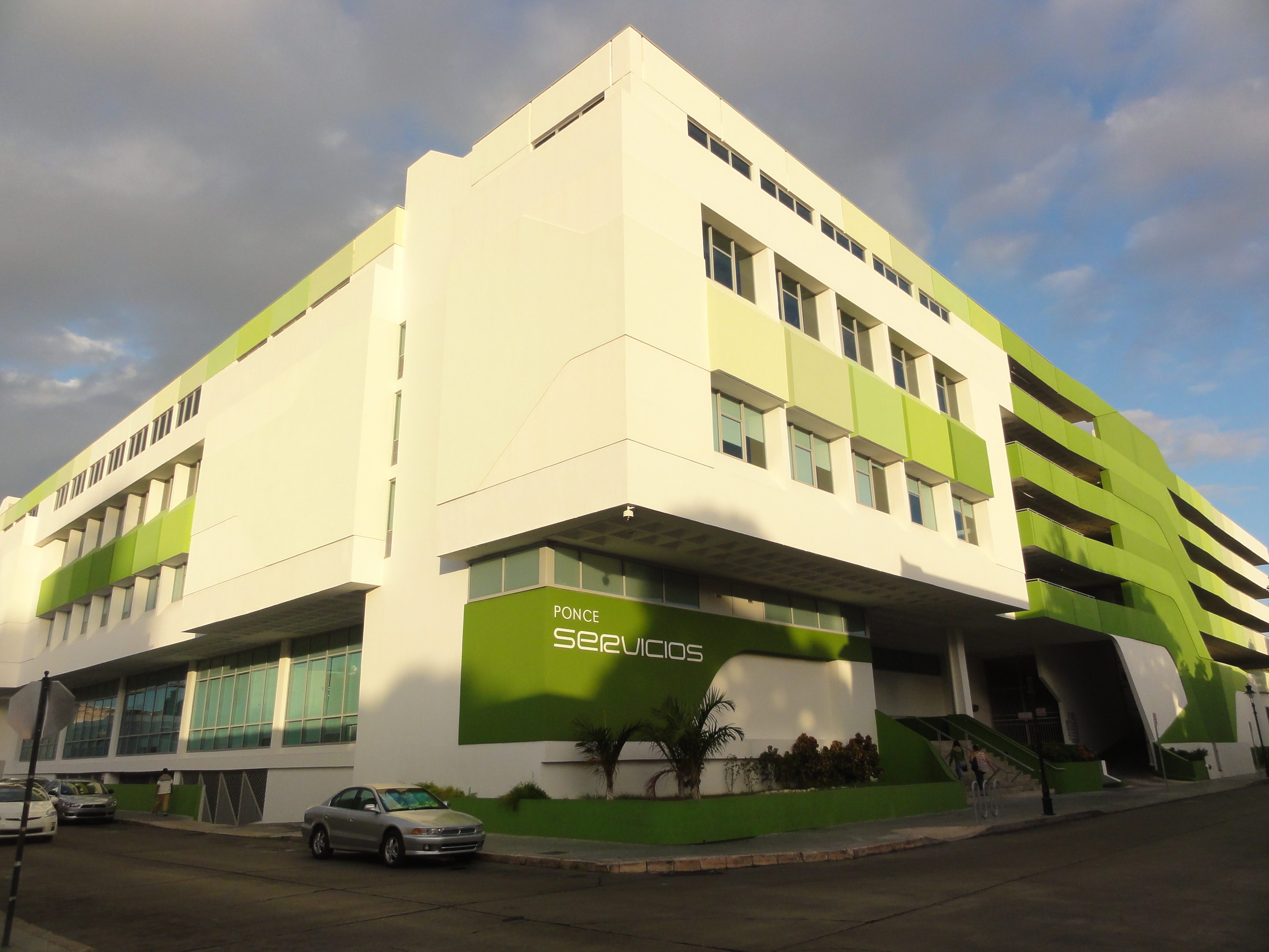 Ponce Servicios, en Ponce, Puerto Rico, mirando hacia el noroeste